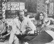 Georges Melchior and Stacia Napierkowska from French-Belgian film L'Atlantide